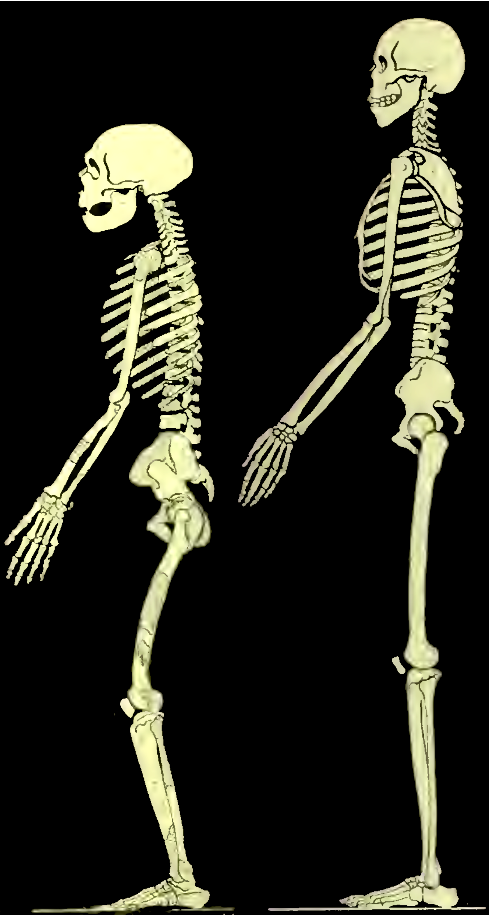 Boule (1912)'s now discredited interpretation of Neanderthal morphology (left), compared to an anatomically modern human.